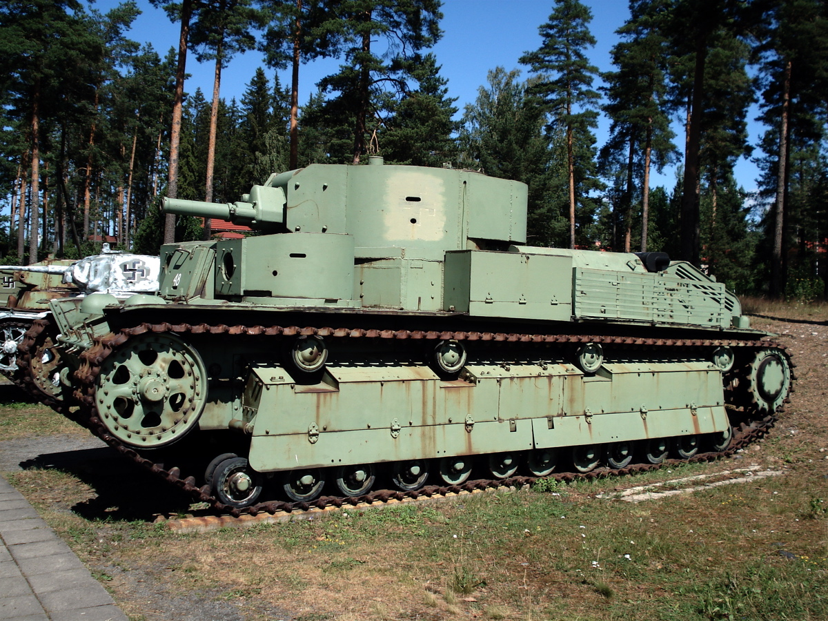 Soviet T-28 tank, displayed in Finnish Tank Museum (Panssarimuseo) in Parola. Photo taken on July 14, 2006. Source: Photo by me, User:Balcer.